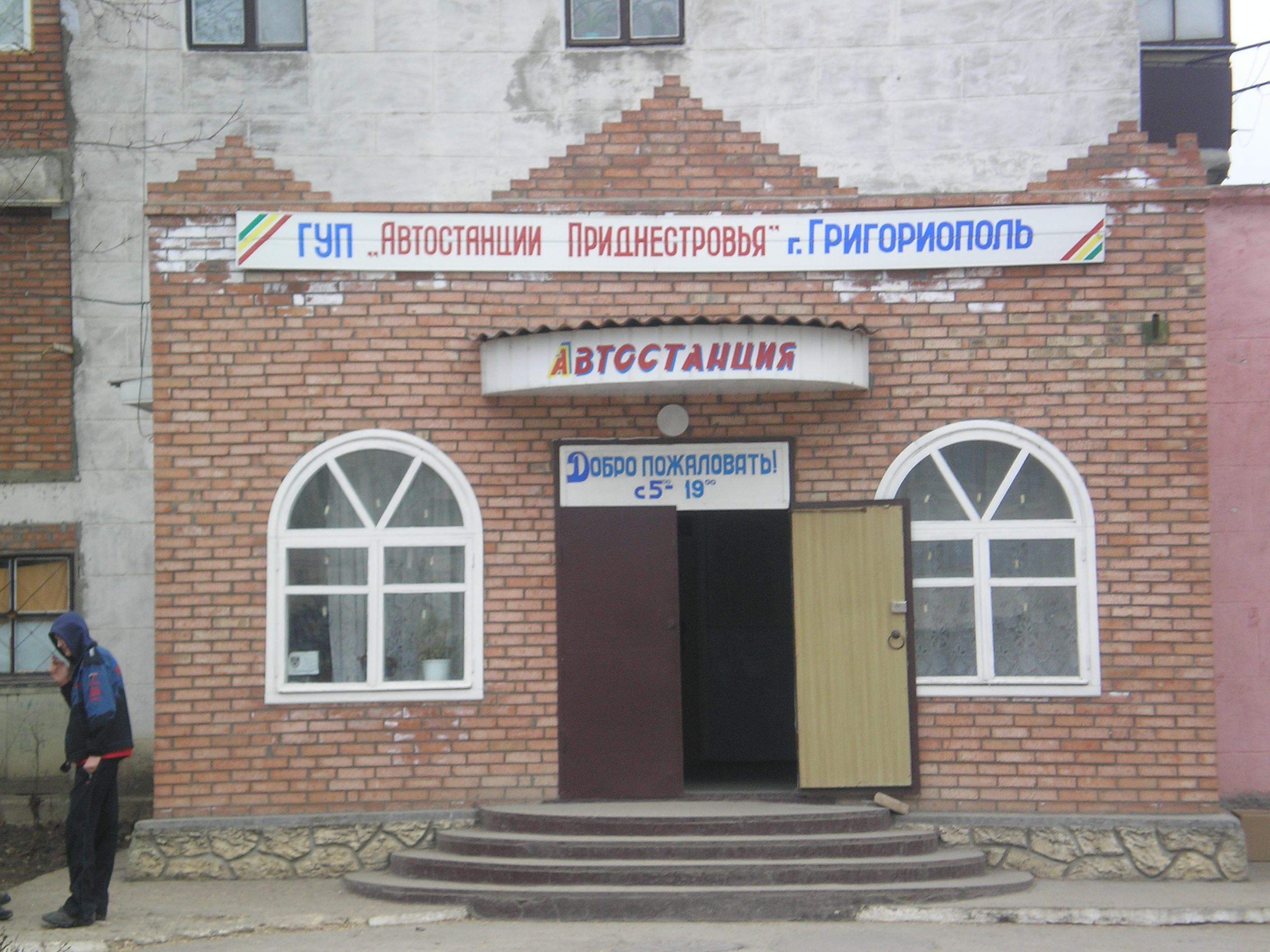 Grigoriopol bus station